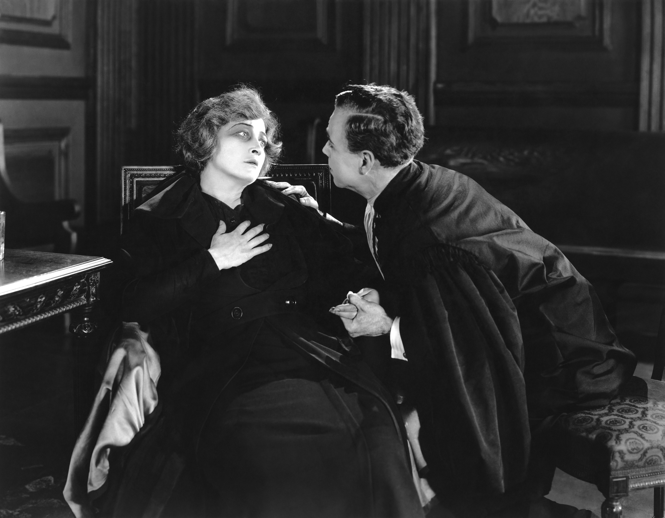 Pauline Frederick and Casson Ferguson in Madame X (1920) - cropped screenshot